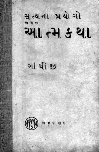 book cover of ' satya na prayogo', an autobiography of Gandhi. (gujarati)